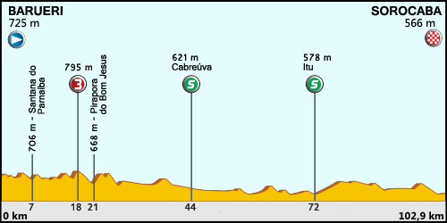 Profile of the 1st stage of the 2014 Volta Ciclística de São Paulo